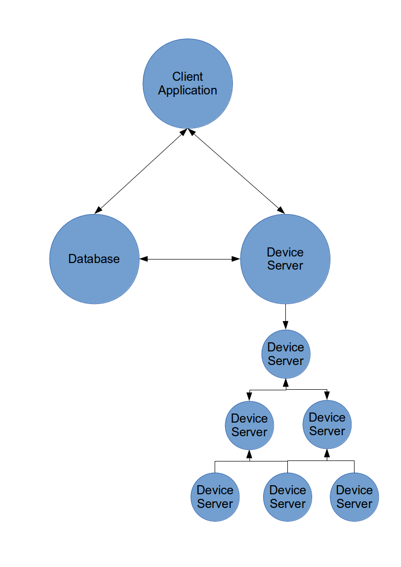 Hierarchical architecture of TANGO